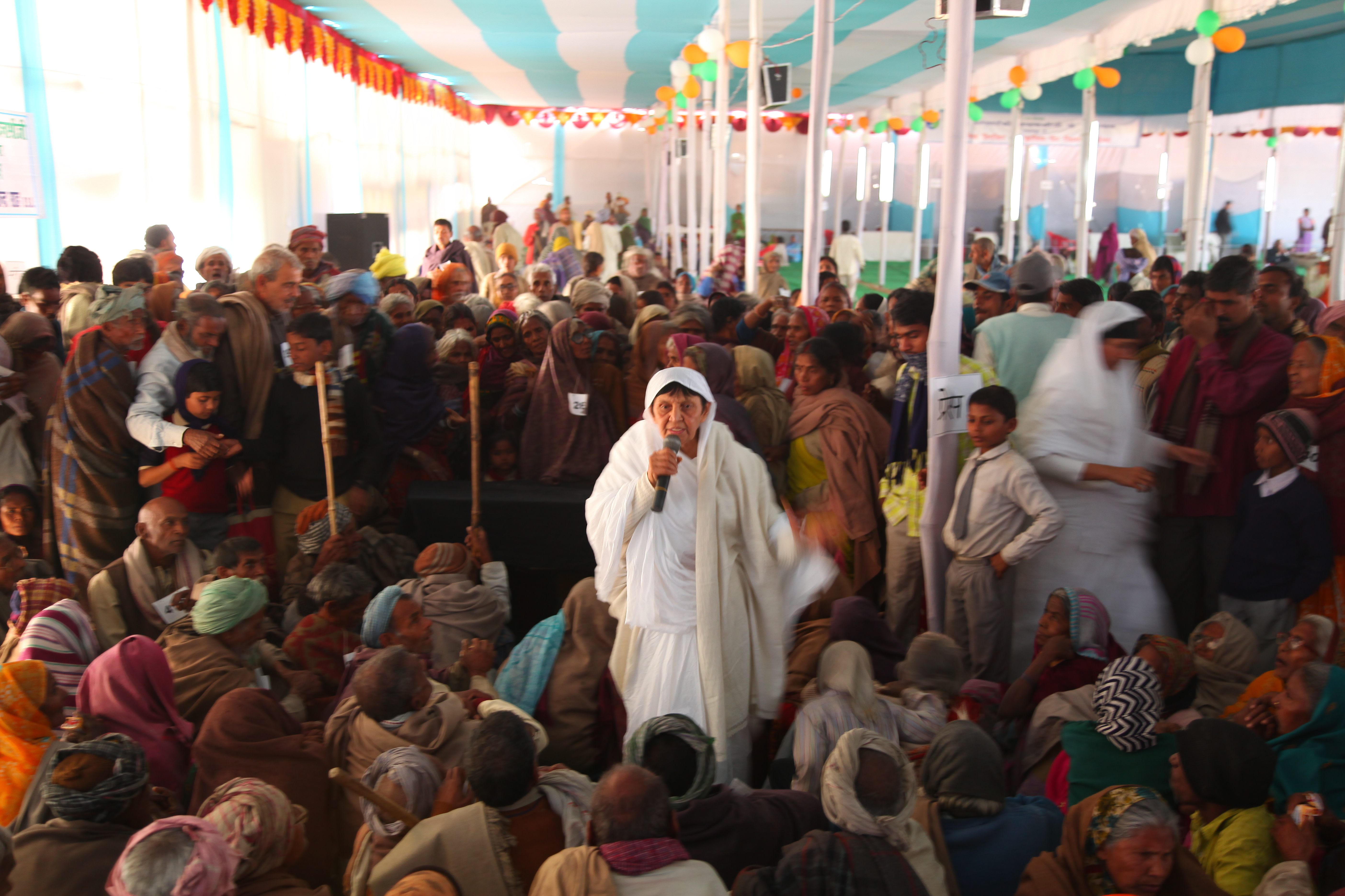 Relief Work by Veerayatan, an NGO, during natural calamities.